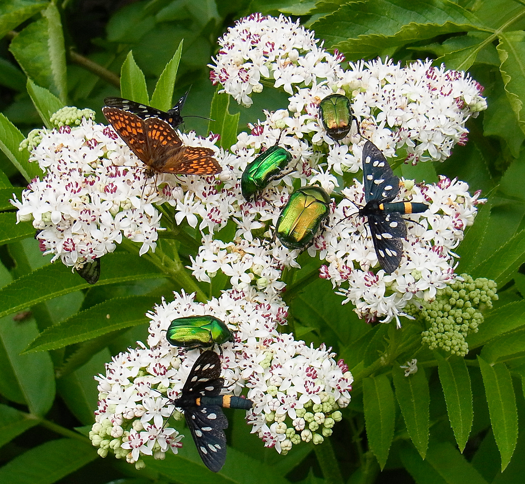 Plenty of insects on Sambucus ebulus from Hungary, Zemplen-mountains at 2012-06-29